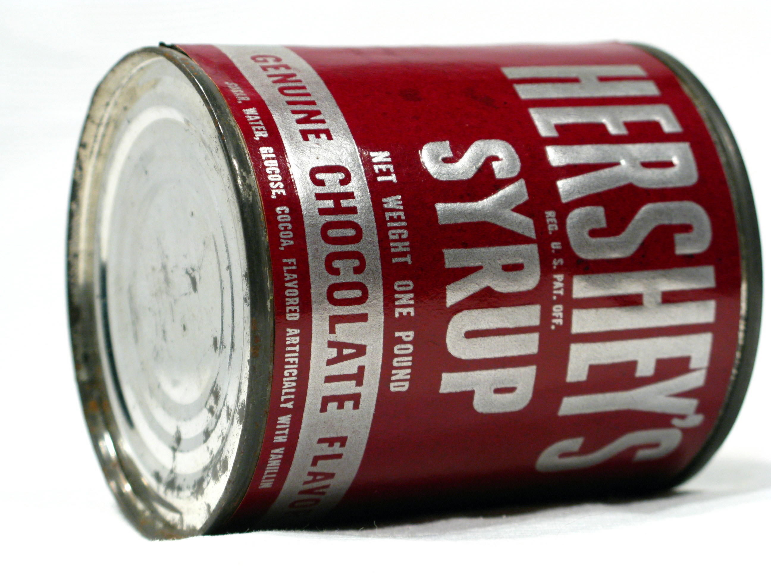 Hershey's Syrup 1950s. Height: 9,2 cm / Diameter: 8 cm. Tin stamping: 3T57, manufactured by Hershey Chocolate Corporation, Hershey, PA., USA. The can was part of US-Help for Europe (Marshall Plan / European Recovery Program), in this particular case for Vienna / Austria / EU after World War II and is not opend down to the present day. Inscription: HERSHEY’S / Reg. U. S. PAT. OFF. / SYRUP / Net weight one pound / Genuine Chocolate Flavor / Sugar, Water, Glucose, Cocoa, Flavored artificially with vanillin.